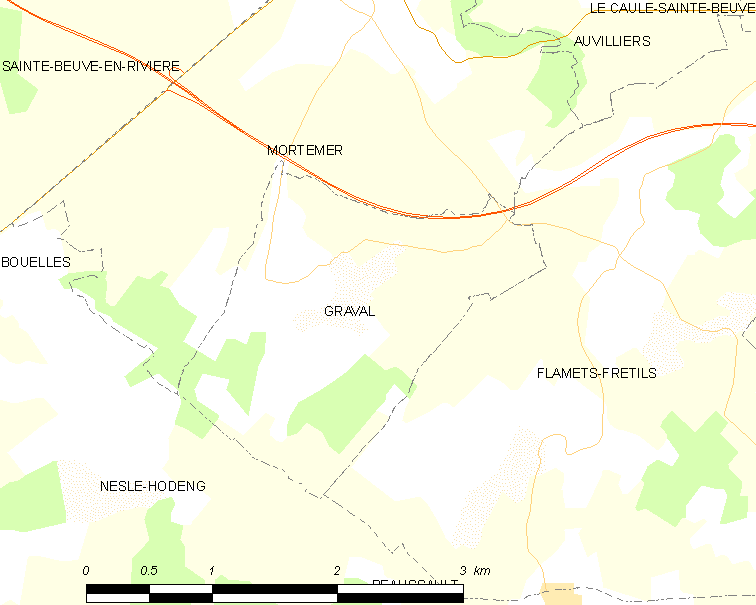 Map of French municipality Graval